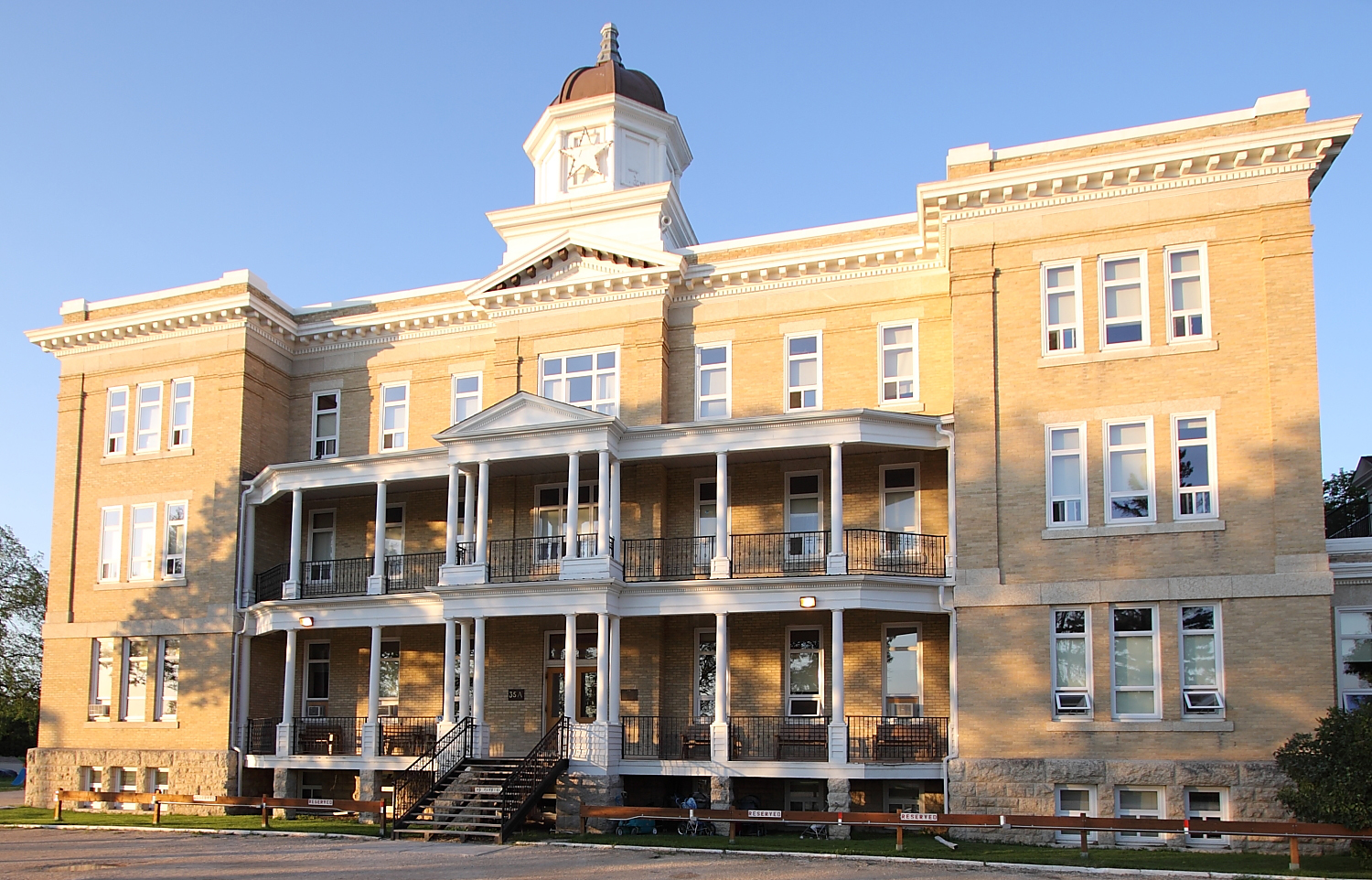 The Aisle Ritchot, now called the Behavioral Health Foundation.